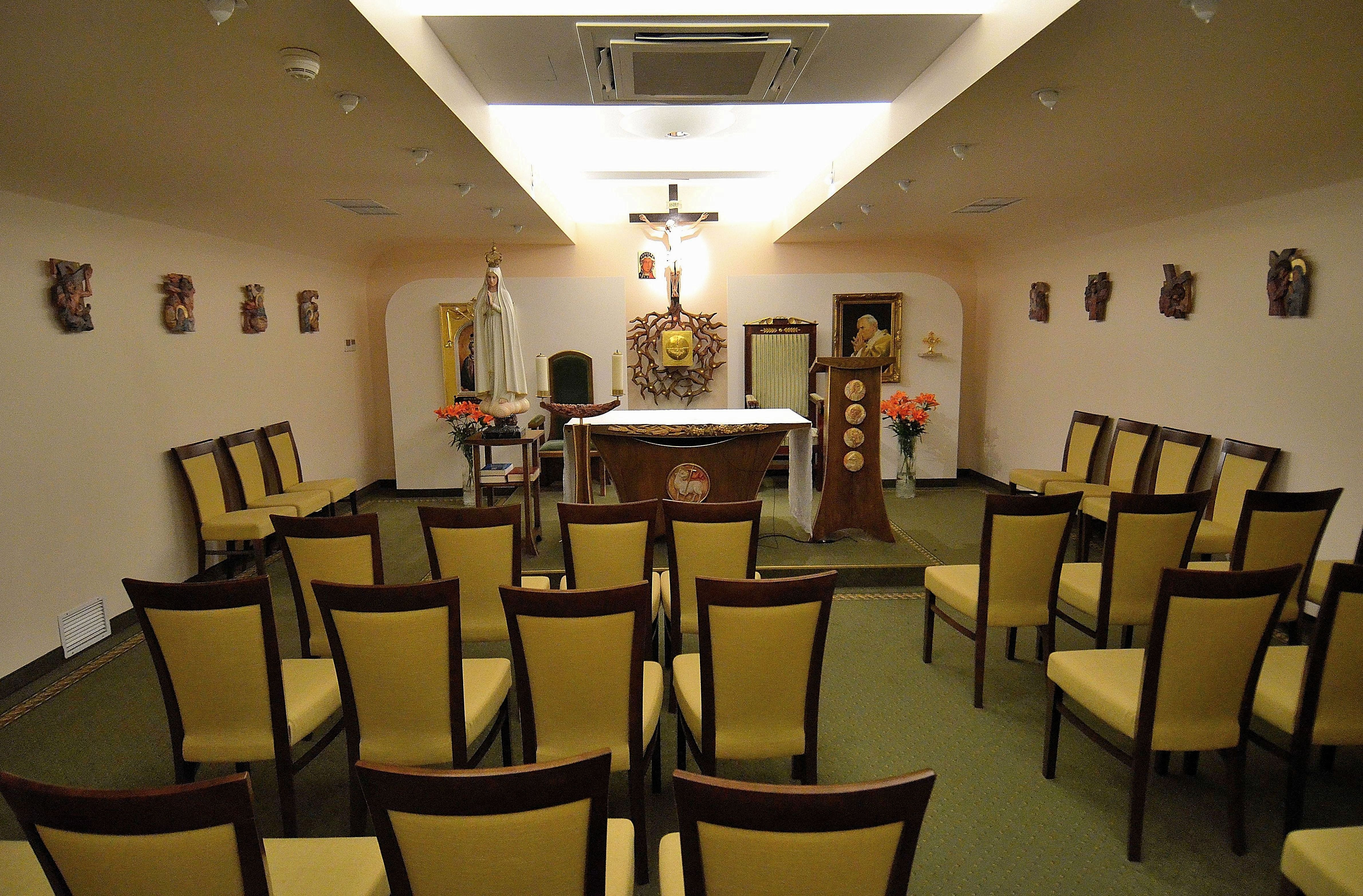 Interior of the Sejm chapel